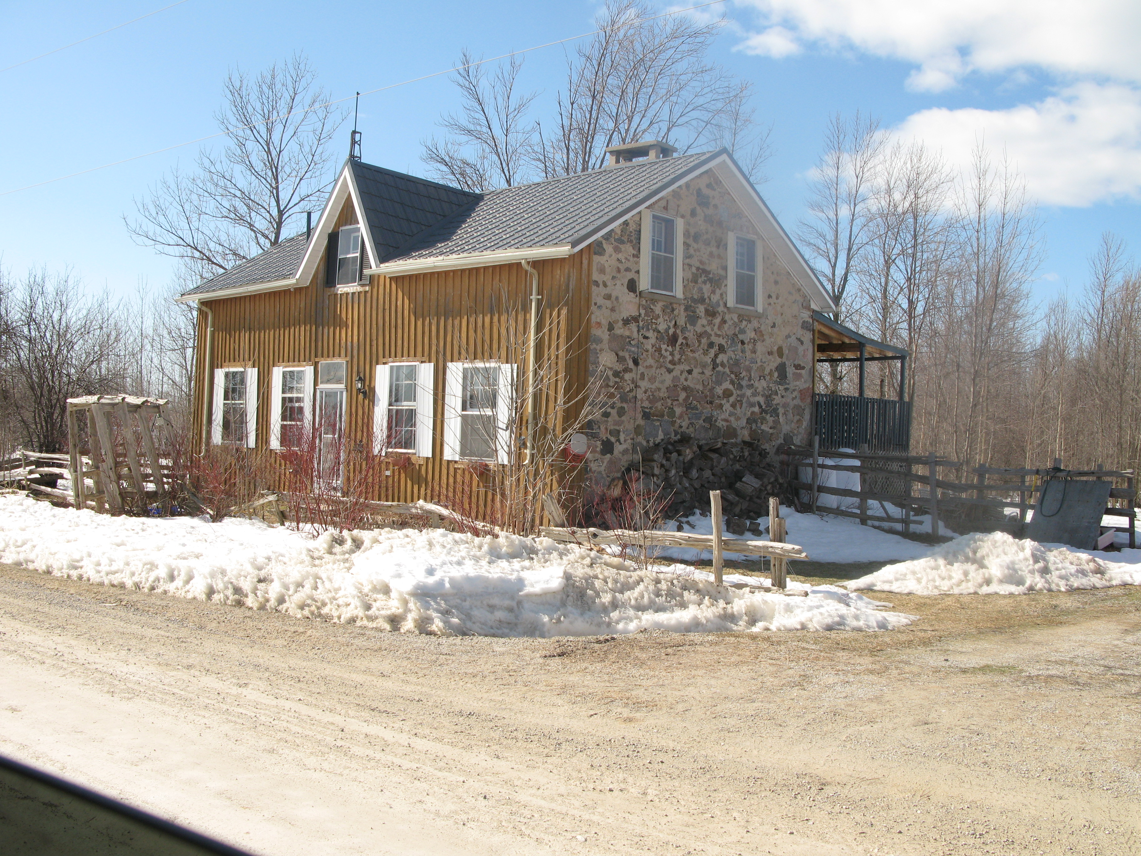 Balaclava, Ontario. Taken by Rebecca Scott in March, 2007.